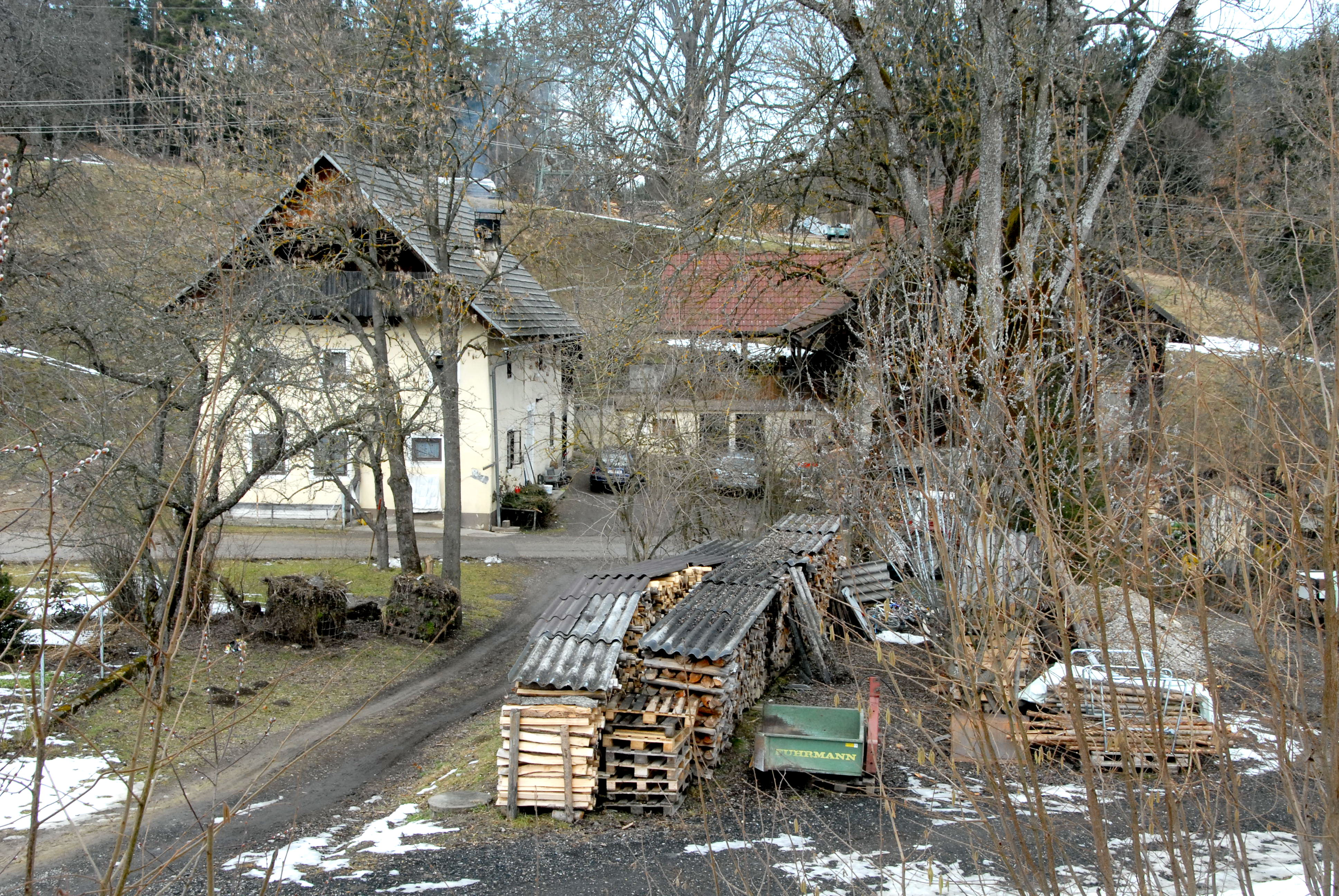 Homestead at the hamlet Saint Nikolai in the community Keutschach, Carinthia, Austria